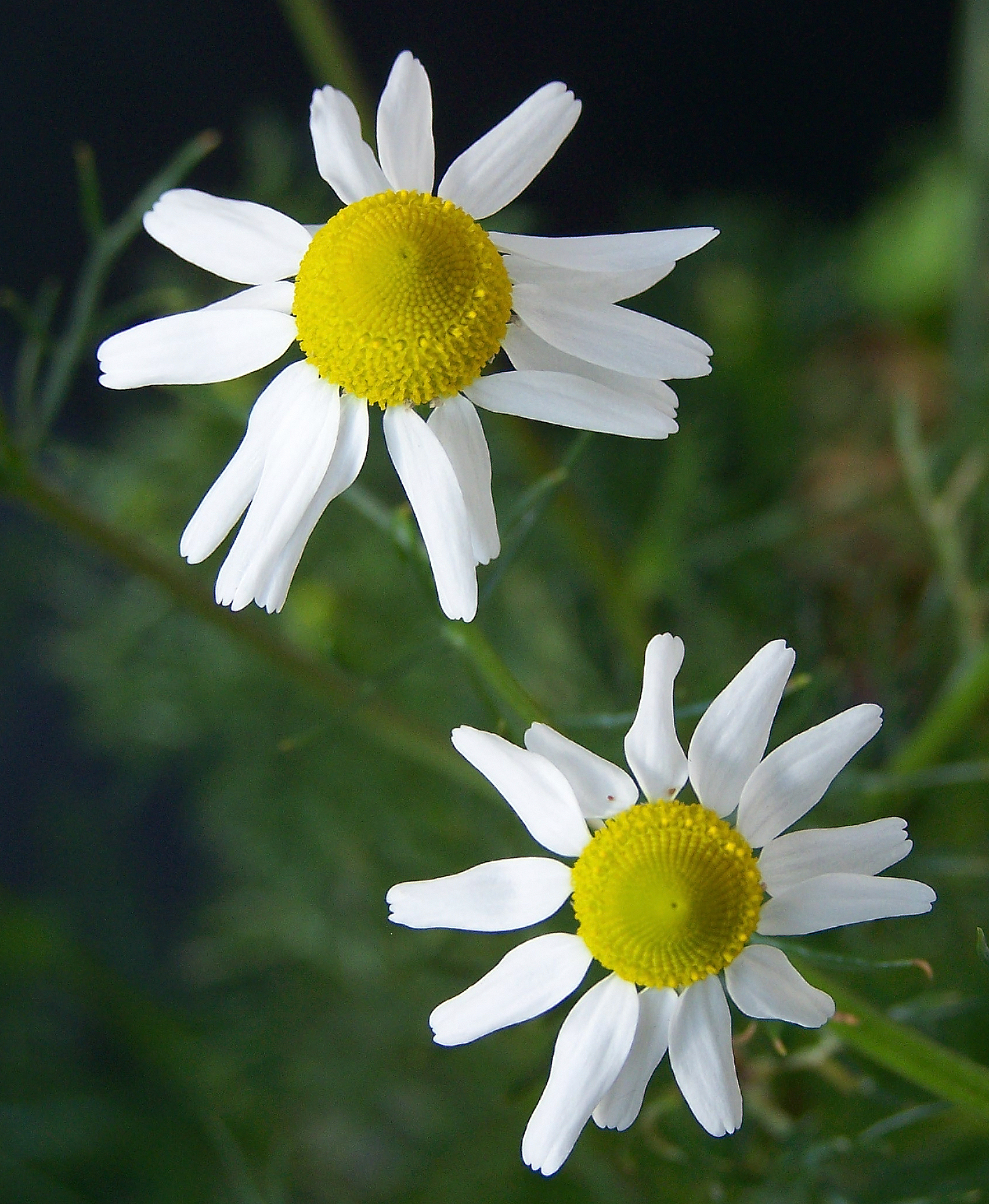 "Blue Chamomile", (Matricaria chamomilla Linnaeus, 1753) in Rhine country near Cologne.